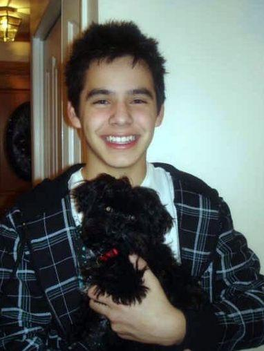 DA with his puppy